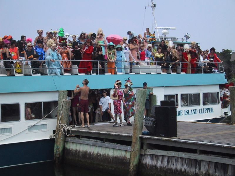 Invasion of the Pines - picture by Jon Morrow and sent to User:Brookie with permission to use on the Wiki article. Contents 1 Licensing 2 Source 3 Licensing 4 Original upload log Licensing Source Jon Morrow I grant permission to copy, distribute and/or modify the images entitled "Invasion-3481.jpg" and "Invasion-3486.jpg" under the terms of the GNU Free Documentation License, Version 1.2 or any later version published by the Free Software Foundation; with no Invariant Sections, no Front-Cover Texts, and no Back-Cover Texts. -JON MORROW Director, "INVASION OF THE PINES"